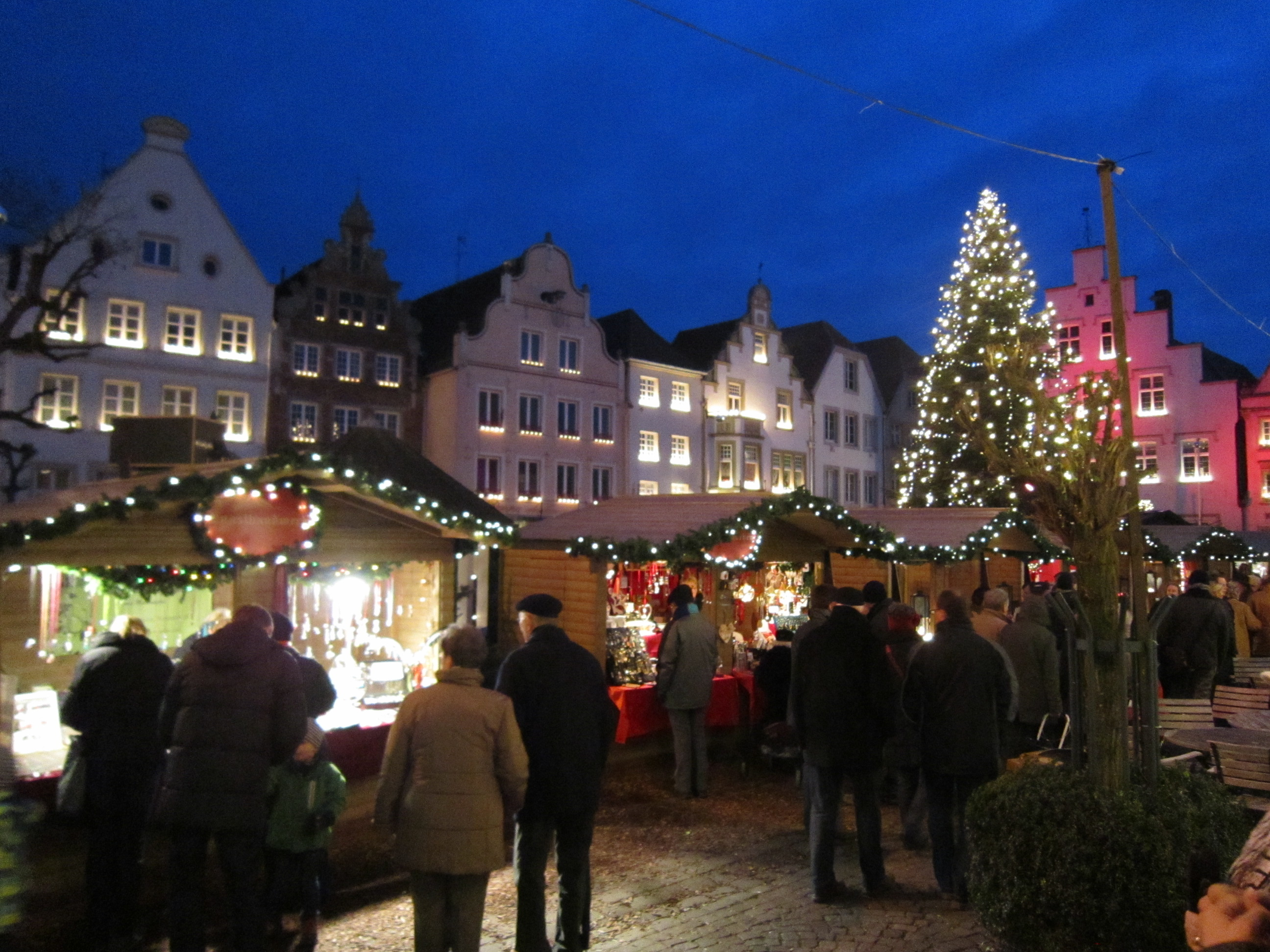 Christmas market at Warendorf